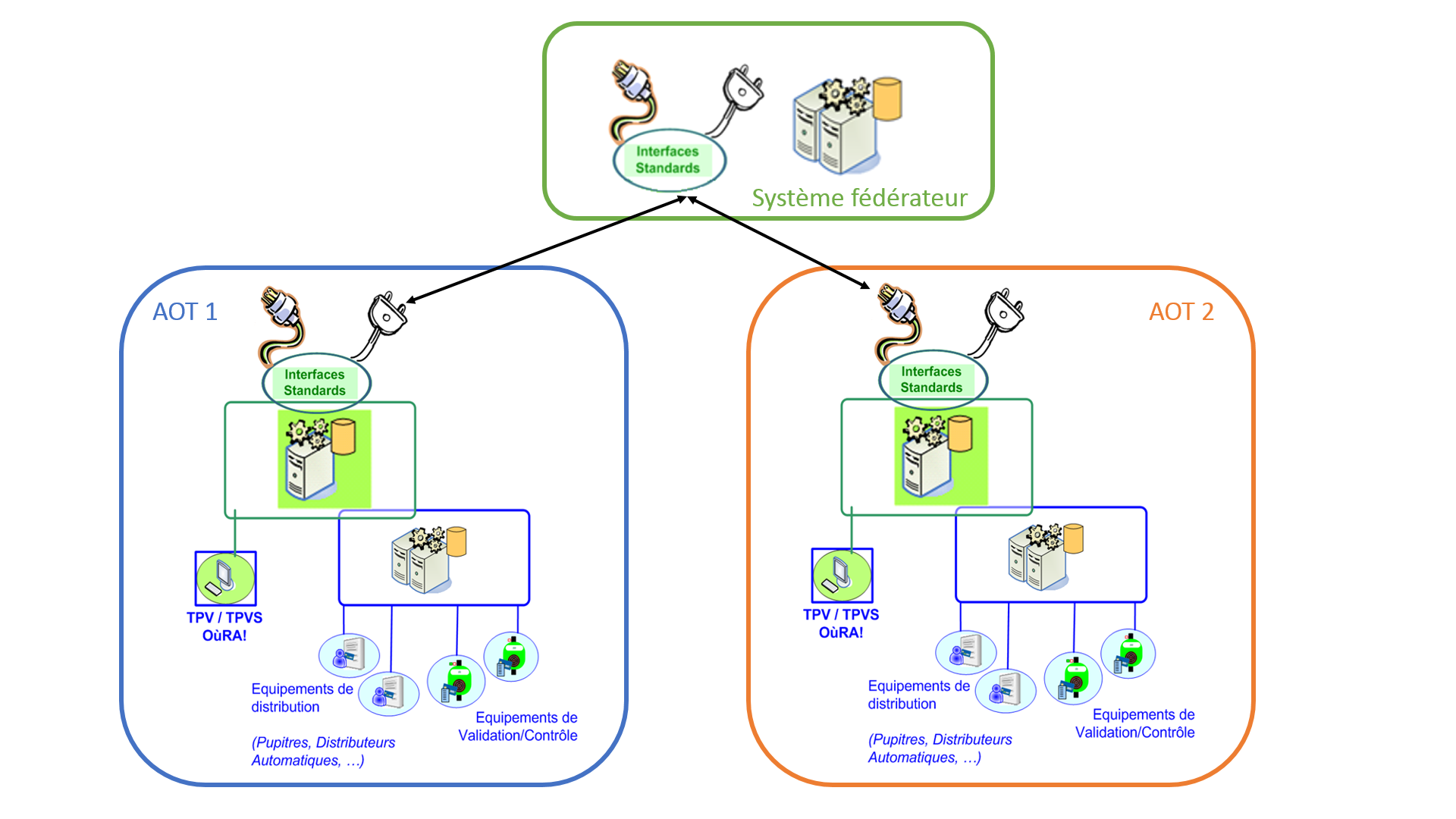 Interoperable fare management system in Rhône-Alpes, France